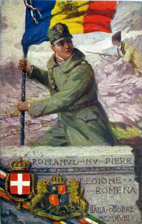 This is a propaganda postcard published by Danesi in Rome, Italy in 1918, with the aim to stimulate the enrollment of the Austro-Hungarian prisoners of war who were of Romanian nationality, to Romanian Legion